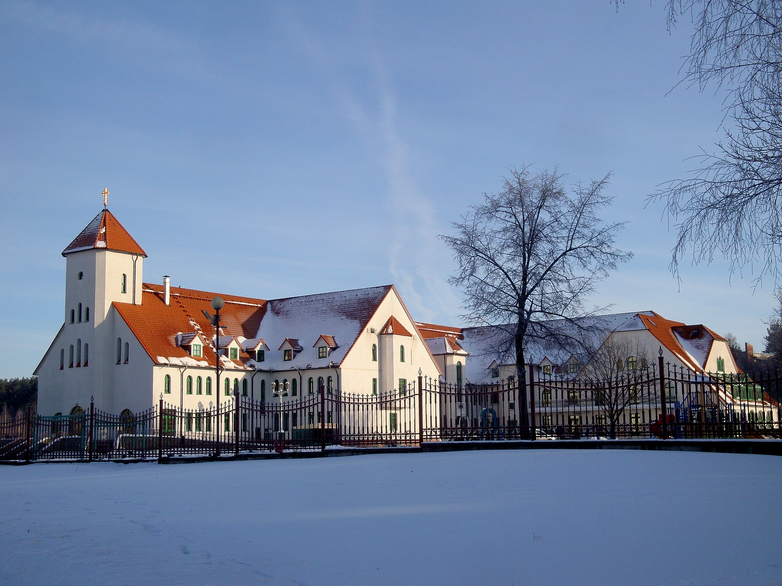 Church near Minsk